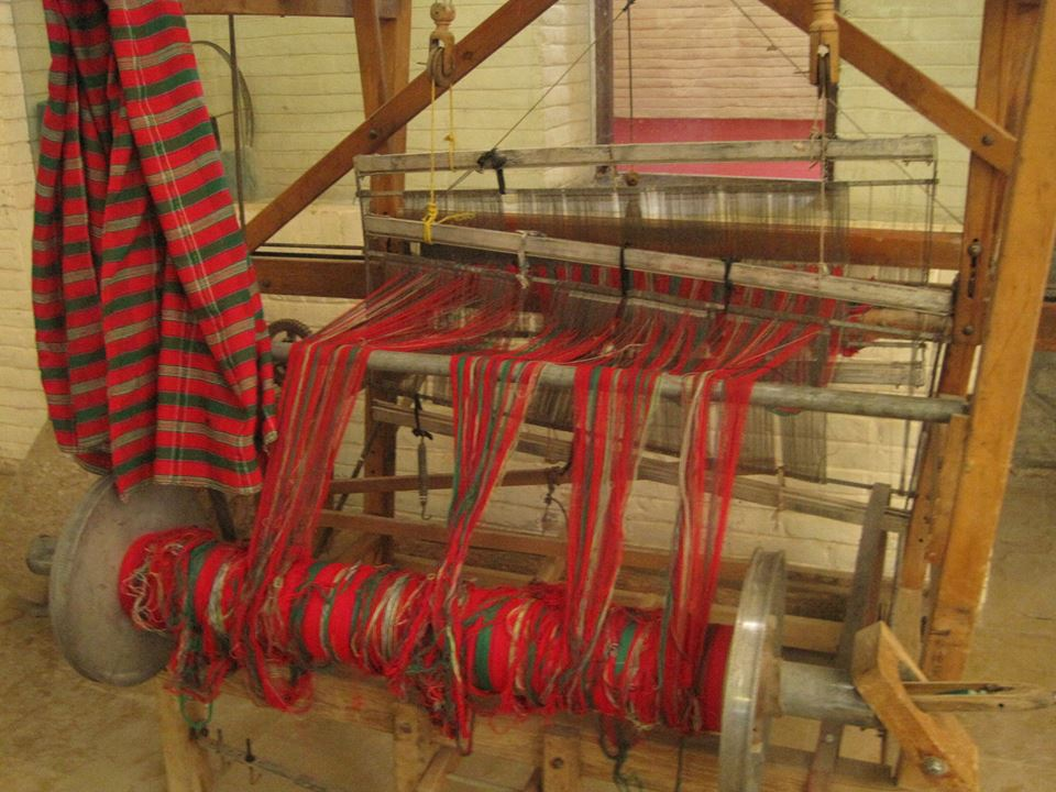 Persian Textile Traditional Tools, Fakhr-e Davood House, Khorasan Province of Persia (Iran), Timurid Era (14th century AD) -- Photo by Seraj Mirdamadi / PDN